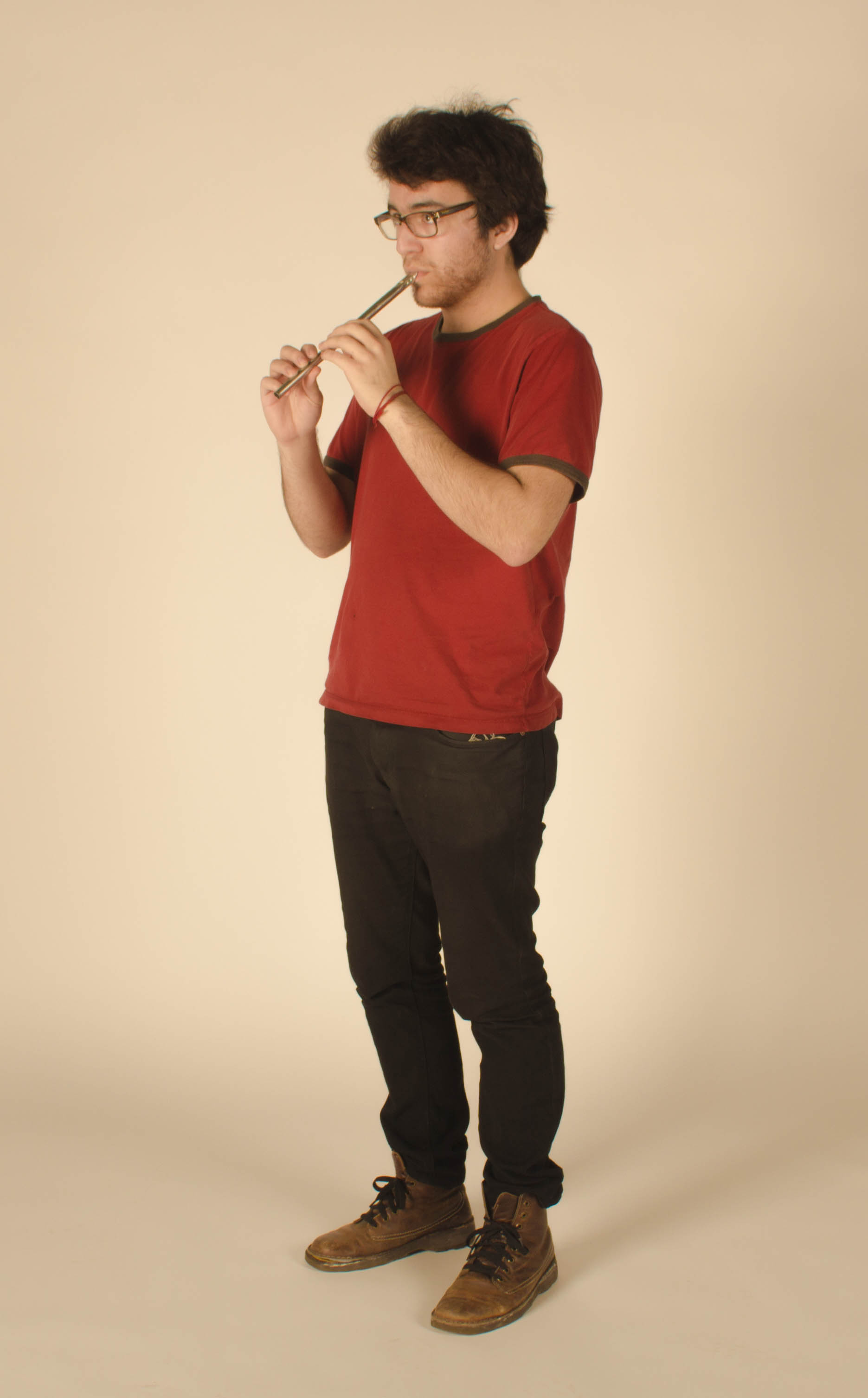 A photo of a young man demonstrating a tin whistle.